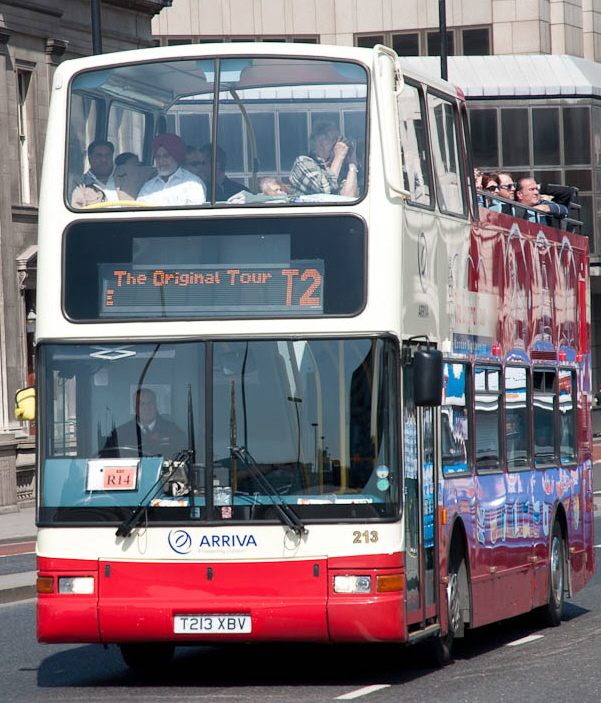 The Original Tour bus 213 (reg. T213 XBV), a 1999 DAF DB250 double-decker with open top Plaxton President bodywork, pictured somewhere in London.